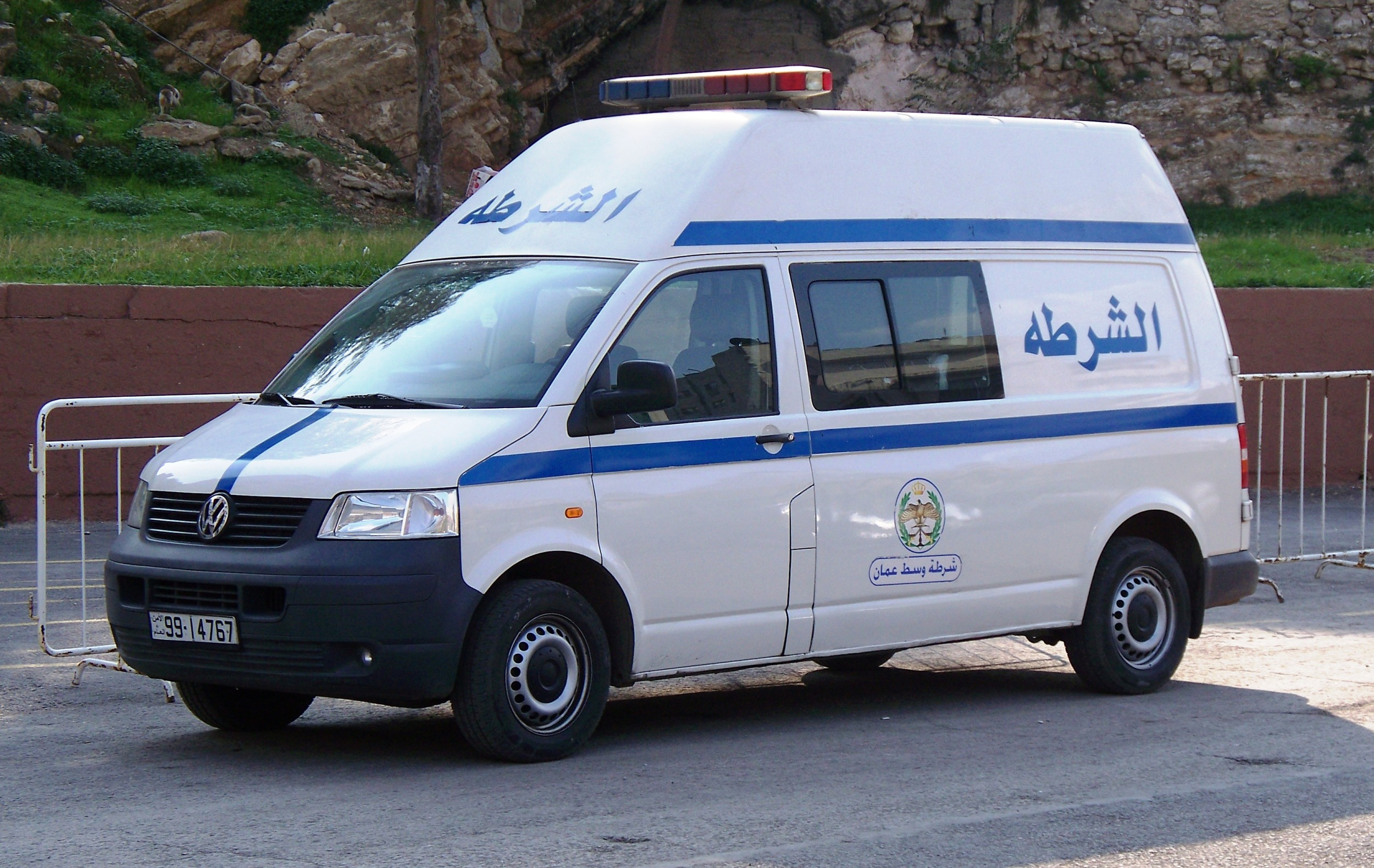 A Volkswagen police van in Amman, Jordan.